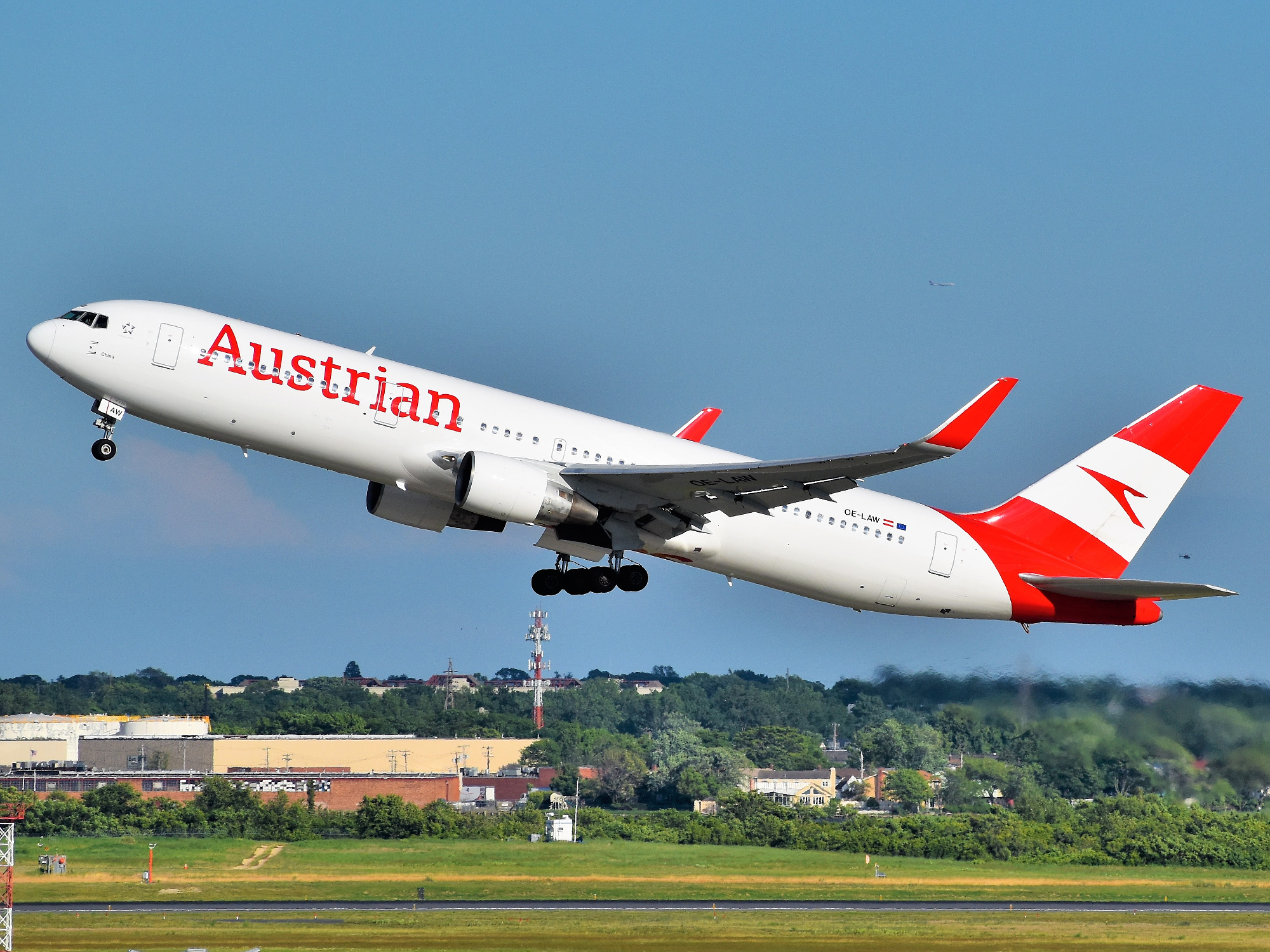 An Austrian Airlines Boeing 767-300ER is taking off from Runway 4L at John F. Kennedy International Airport as Flight OS88.